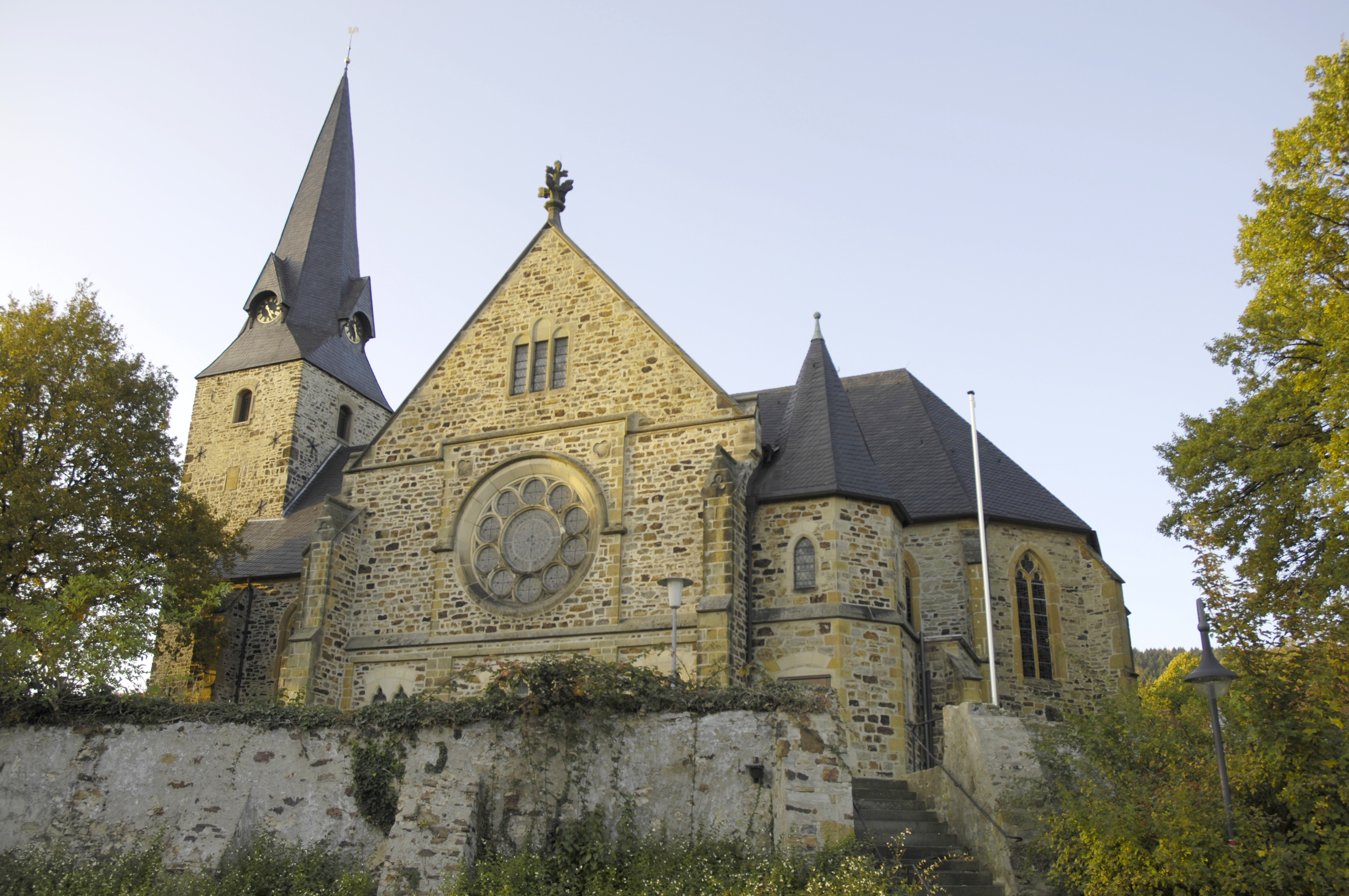 This is a photograph of an architectural monument.